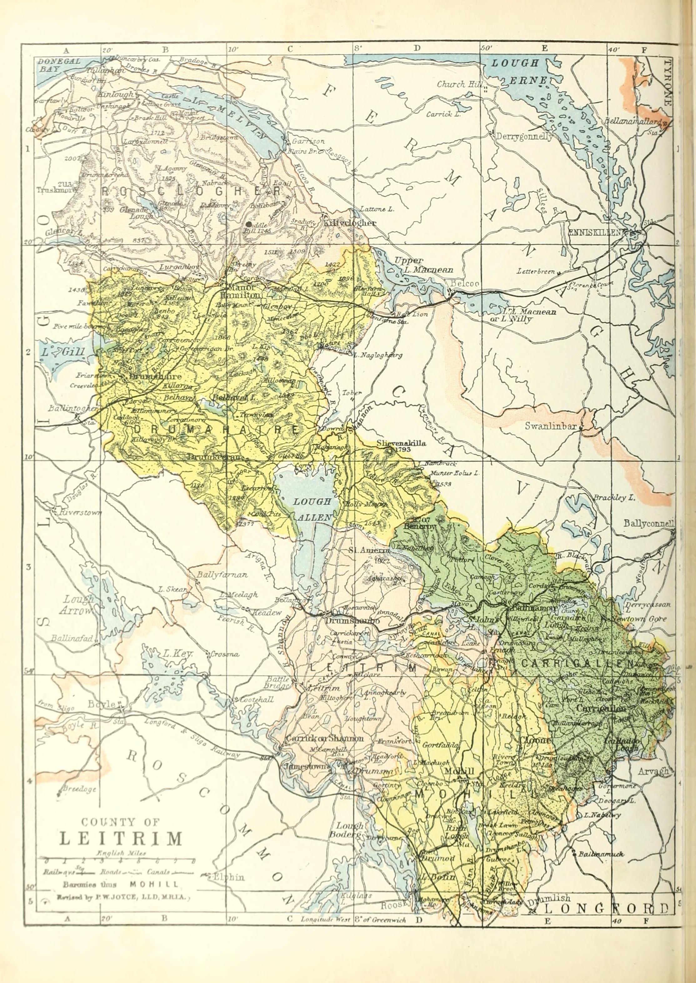 Map of the baronies of County Leitrim in Ireland; taken from Atlas and cyclopedia of Ireland, p.181